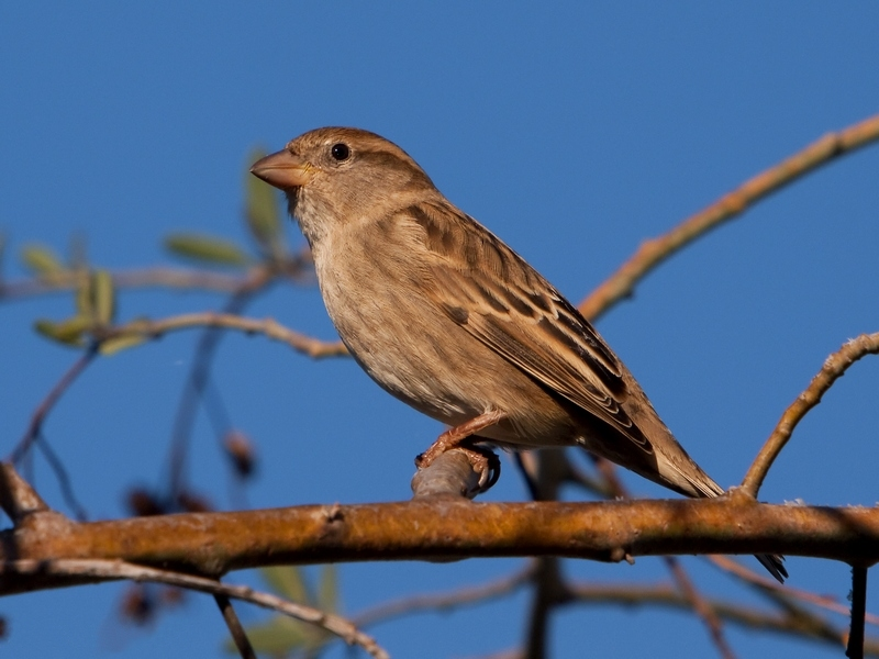 A female Spanish Sparrow on the Canary Islands, Spain.